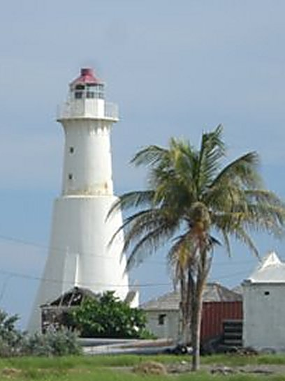 Plumb Point Lighthouse, Palisadoes, Jamaica taken from the NE